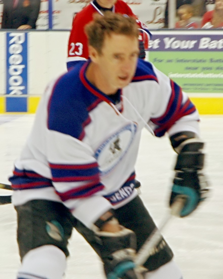 Bernie Nicholls played with the All-Star Legends 2008 in Toronto